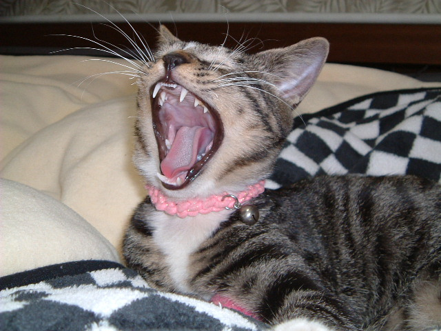 A yawning cat